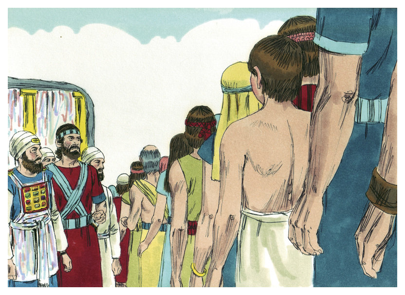 Biblical illustration of Book of Joshua Chapter 7